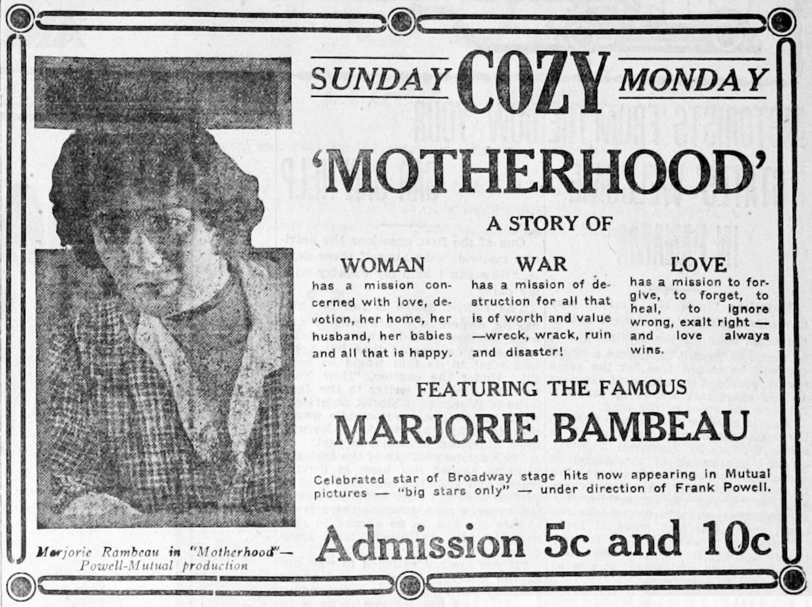 Motherhood is a lost 1917 silent film drama directed by Frank Powell and starring Marjorie Rambeau. This is a newspaper advertisement for the film.